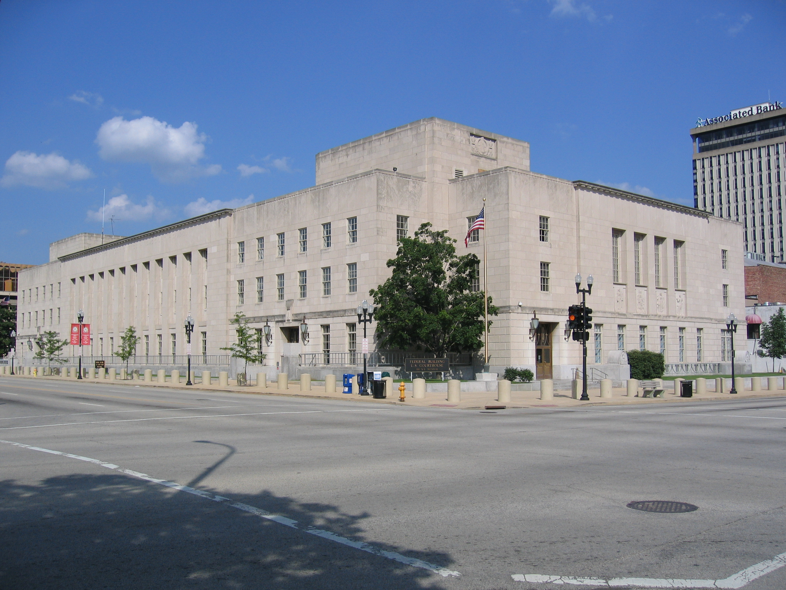 Federal Building and U.S. Courthouse, 100 NE Monroe St. (east corner with Main St.), Peoria, Illinois. This building is mainly courts of the United States District Court for the Central District of Illinois, and was also the United States Post Office for Peoria before the State Street post office was opened. Right background: Associated Bank building